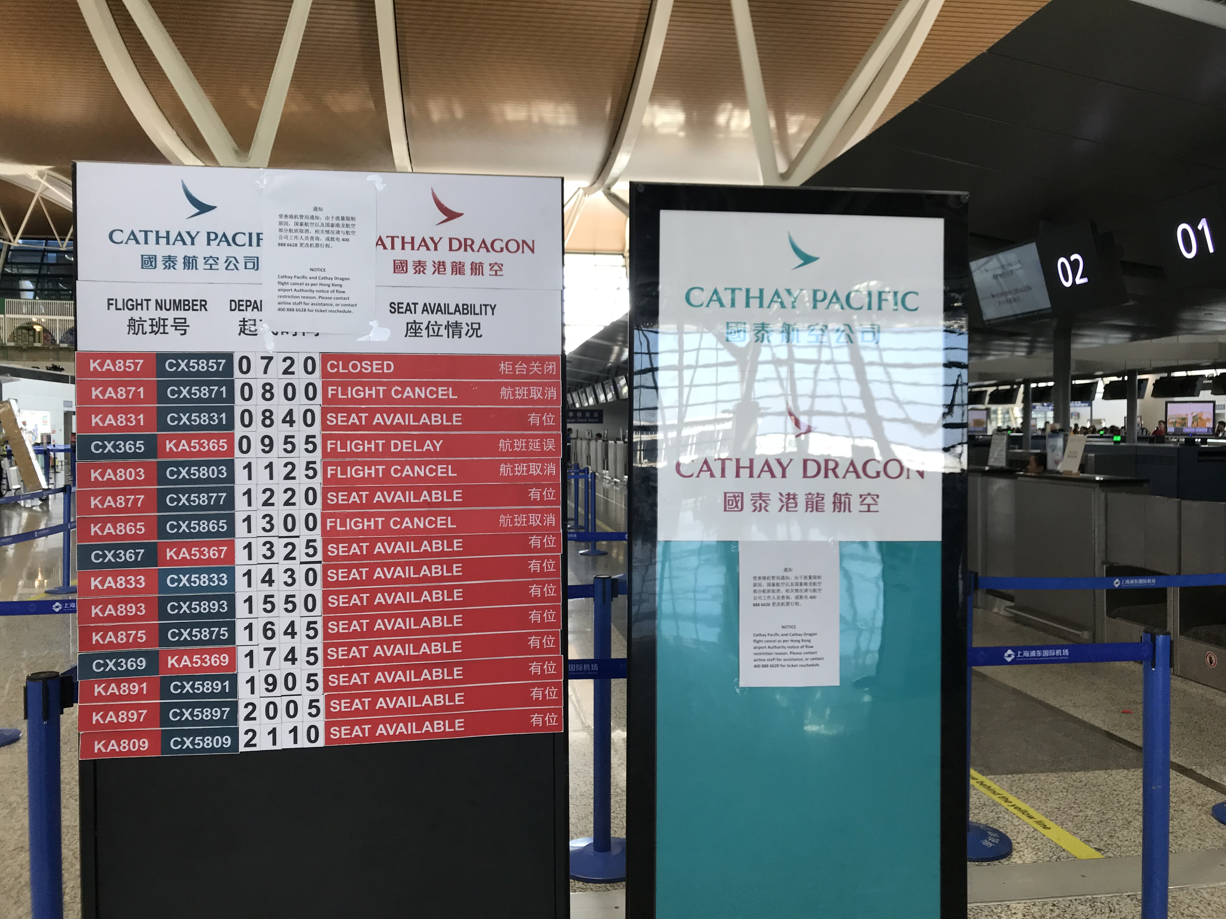 Several flights were canceled due to the strike.